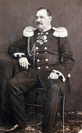 Fyodor Aleksanderovich Grushetsky, colonel, commander of the Order of St. George. Member of the War of 1812. Photo about 1805